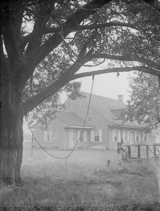 Daniel Berry Austin (American, born 1863, active 1899-1909). Bergen House, Vista, Bergen Beach, Flatlands, Brooklyn, ca. 1899-1909. Dry plate negative. Prints, Drawings and Photographs. Brooklyn Museum/Brooklyn Public Library, Brooklyn Collection, 1996.164.1-91. (1996.164.1-91_IMLS_SL2.jpg) Thank you, dwythebkn! This image has been geotagged by dwythebkn so Brooklyn could be part of the Historypin launch on July 11, 2011. Want to help? See if you can place any of these images on a map! More about #mapBK